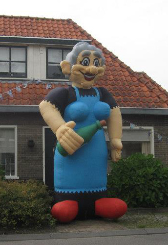 A Sarah puppet for a woman's Abrahams day (her 50th birthday)